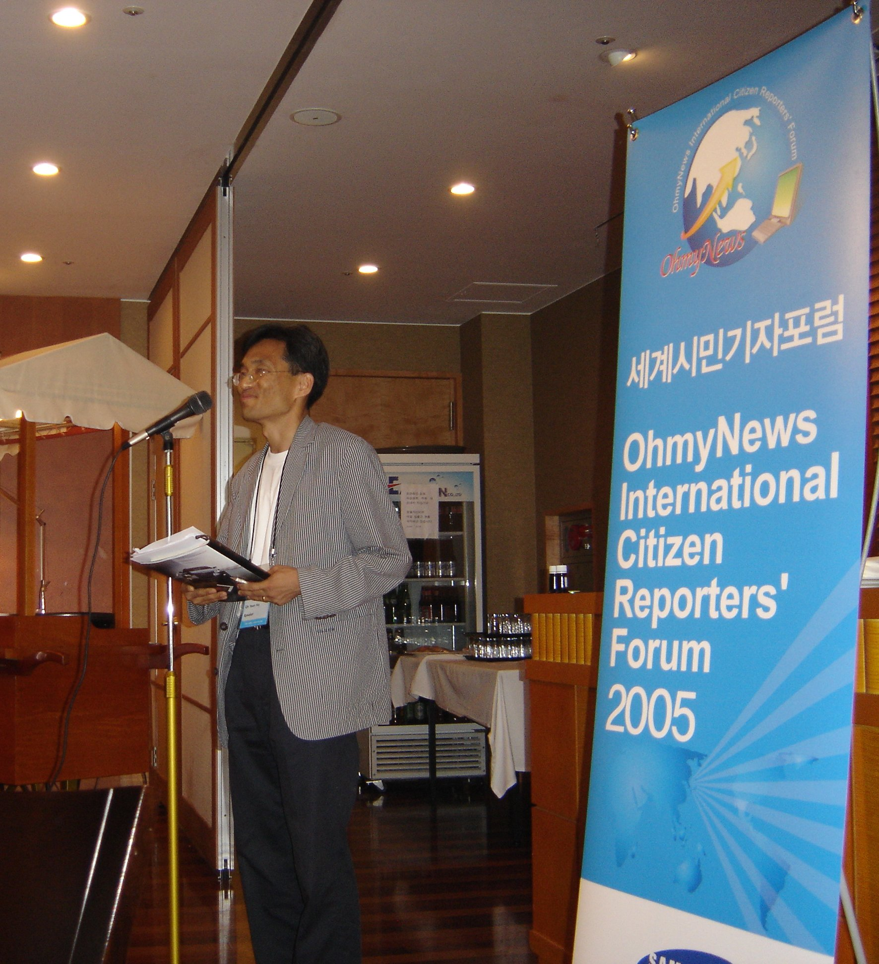 OhmyNews founder Oh Yeon Ho in Seoul, South Korea, introducing visitors to the OhmyNews forum.